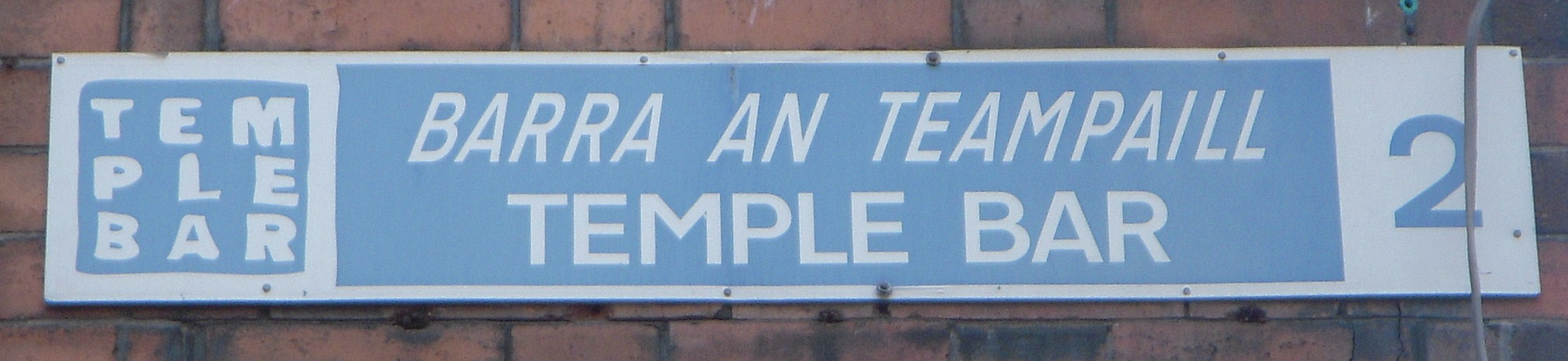 Street sign from Temple Bar in Dublin. April 25, 2011.